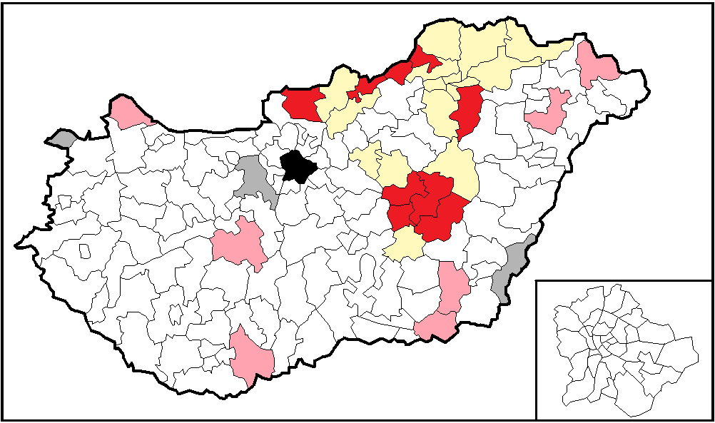 Candidates by minor parties on the 2010 Hungarian parliamentary election: The Workers' Party. ██ = Candidate accepted by the Local Elections Comitee, territorial list accepted by the Local Elections Comitee ██ = Candidate accepted by the Local Elections Comitee, No territorial list ██ = No single-seat candidate, territorial list accepted by the Local Elections Comitee ██ = Single-seat candidate rejected by the Local Elections Comitee